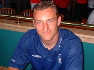 Photo of Riccy Scimeca at Nottingham Forest taken in 2002. Taken with permission from